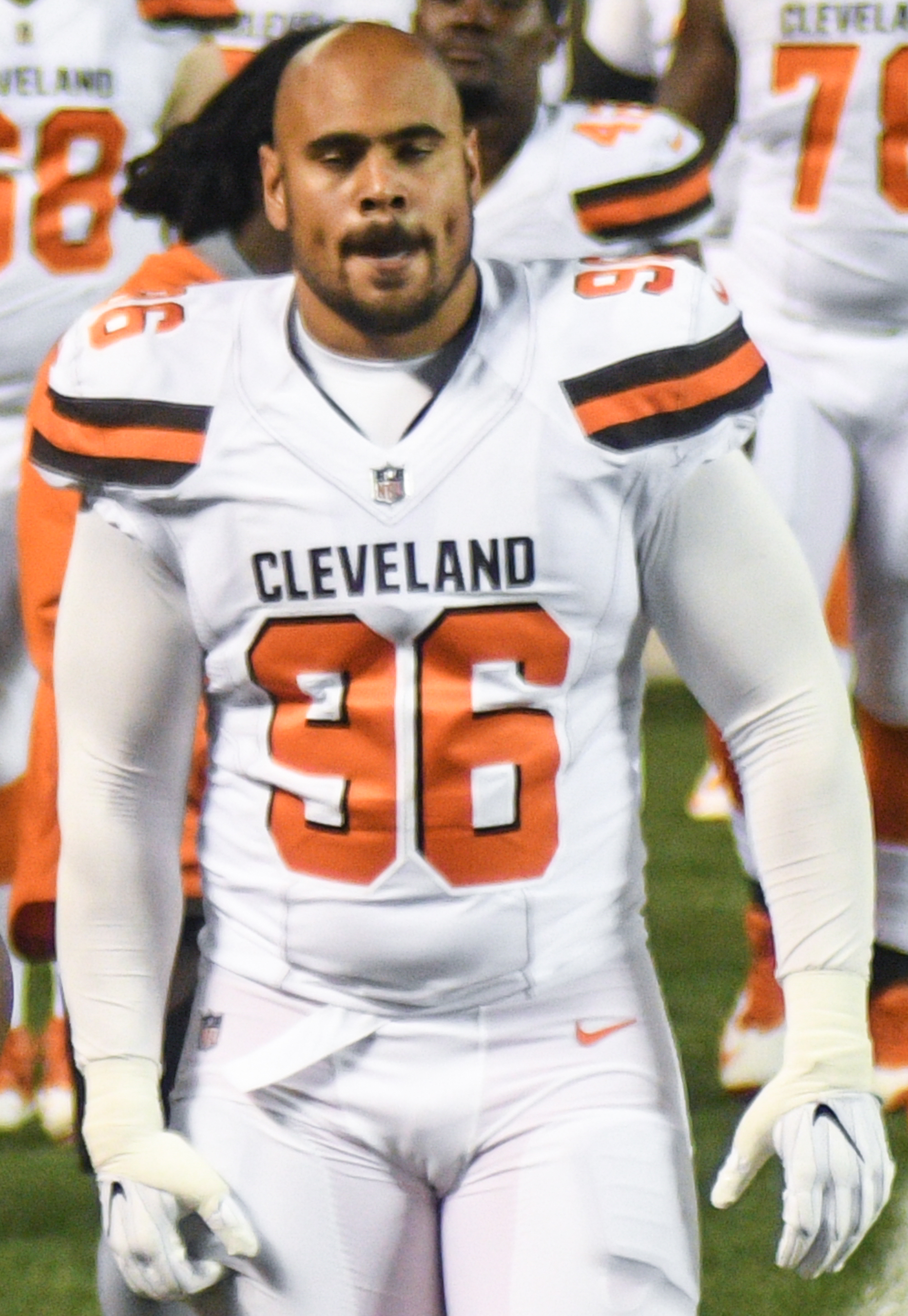 Cleveland Browns vs. New York Giants